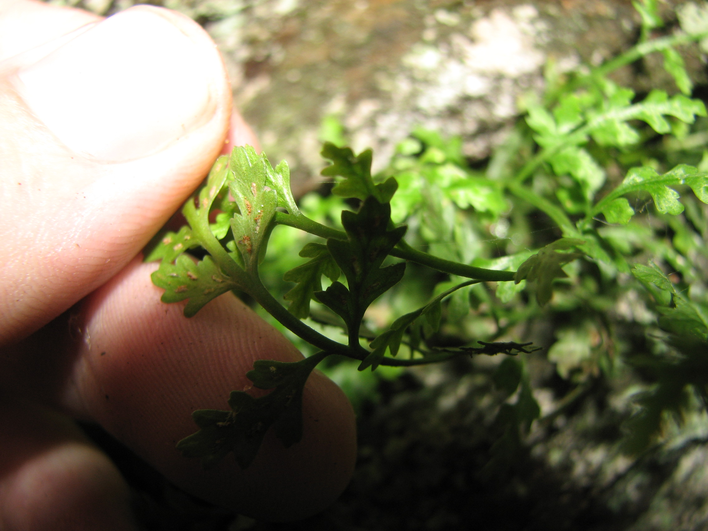 Sori on fertile frond of mountain spleenwort (Asplenium montanum) at Lock 12 Recreation Park, Harford County, Maryland.